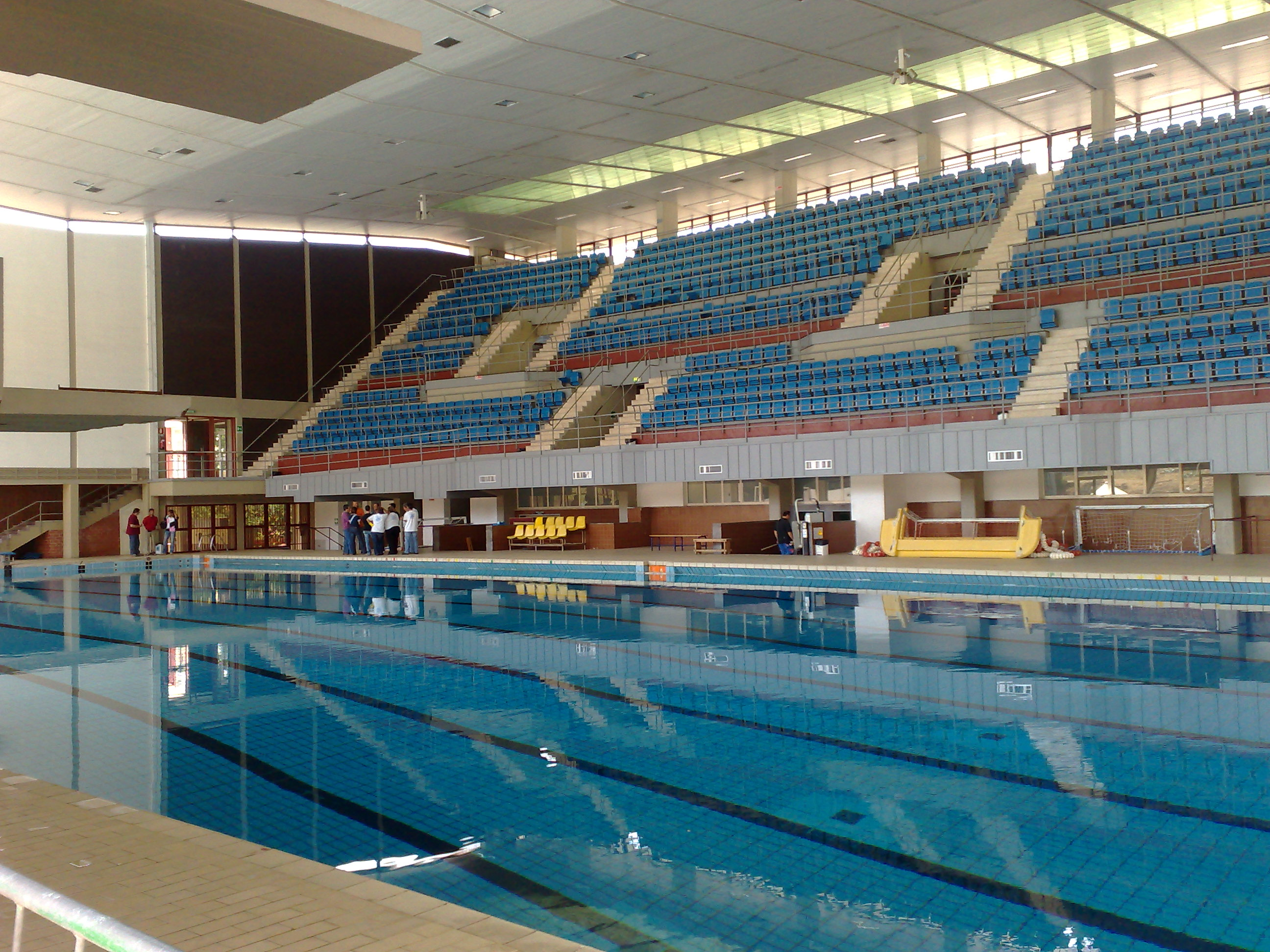 Palermo, public indoor swimming pool